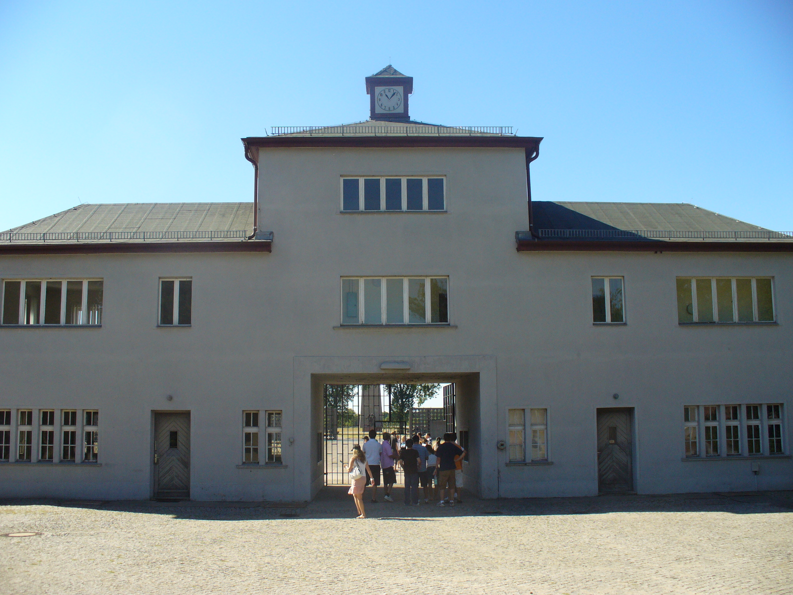 Entrance to KZ Sachsenhausen: July 2006.